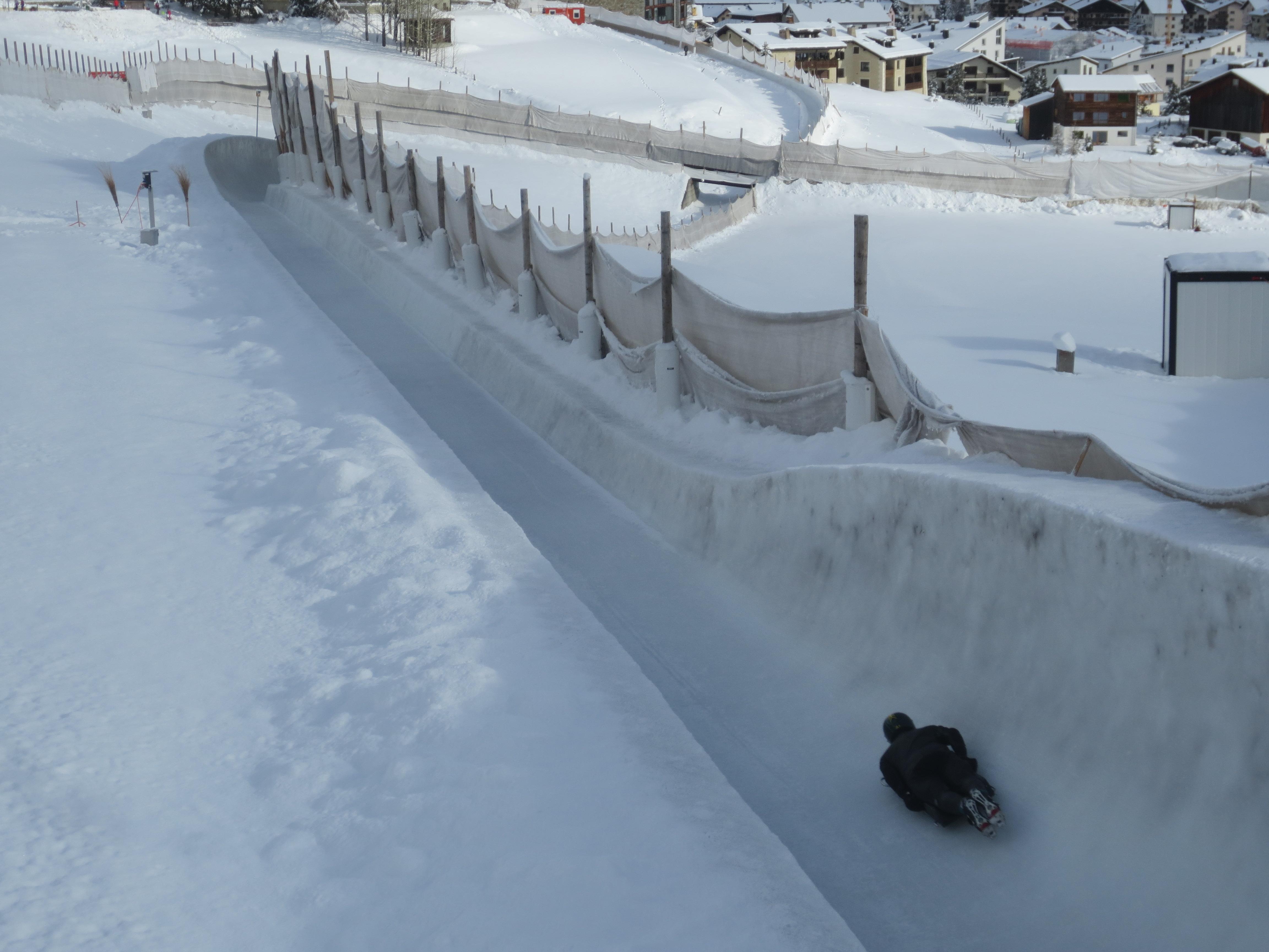 The Cresta Run between St. Moritz and Celerina/Schlarigna, in Switzerland.